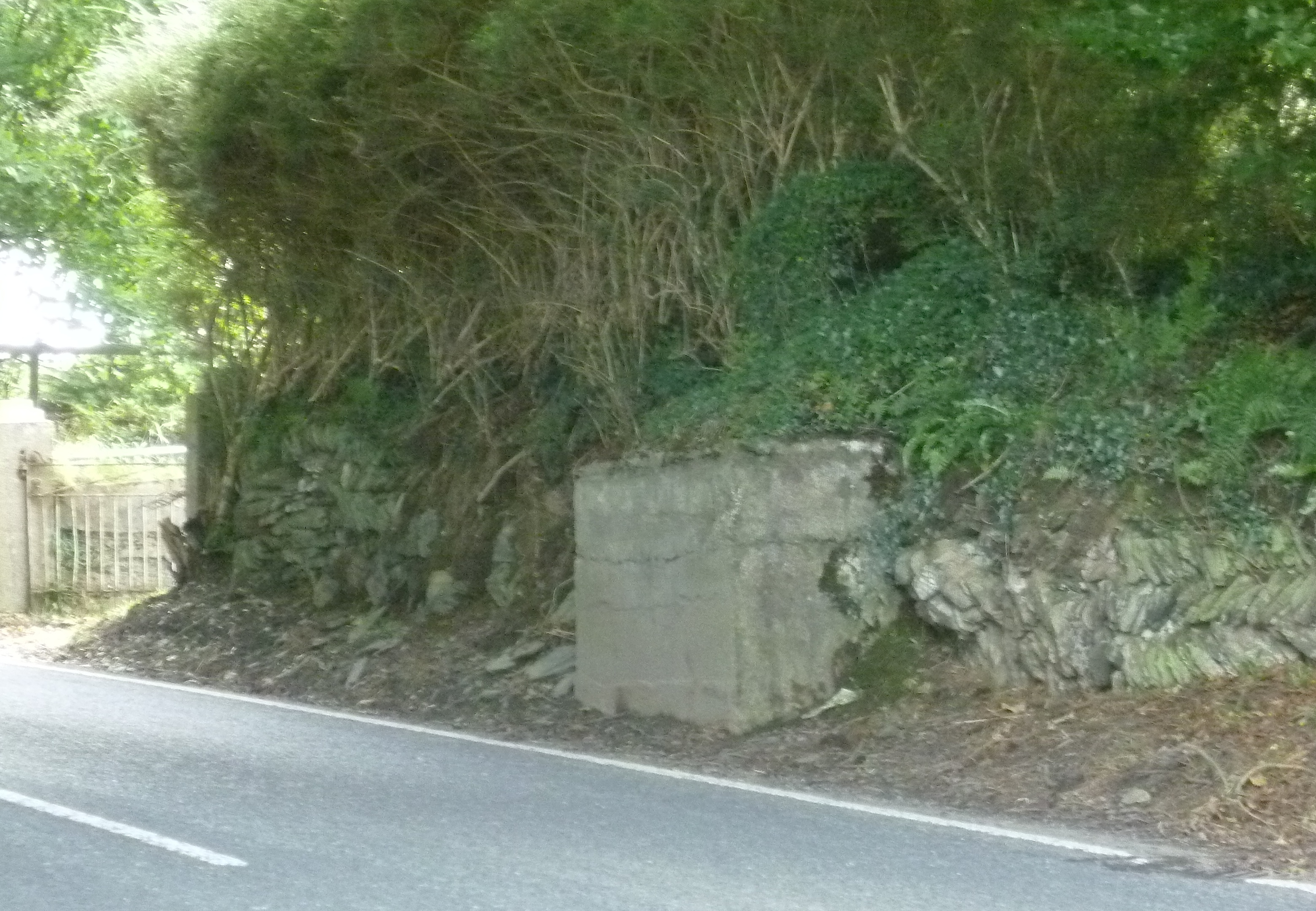 An old milk churn stand on Clover Hill, Blaenffos, Pembrokeshire